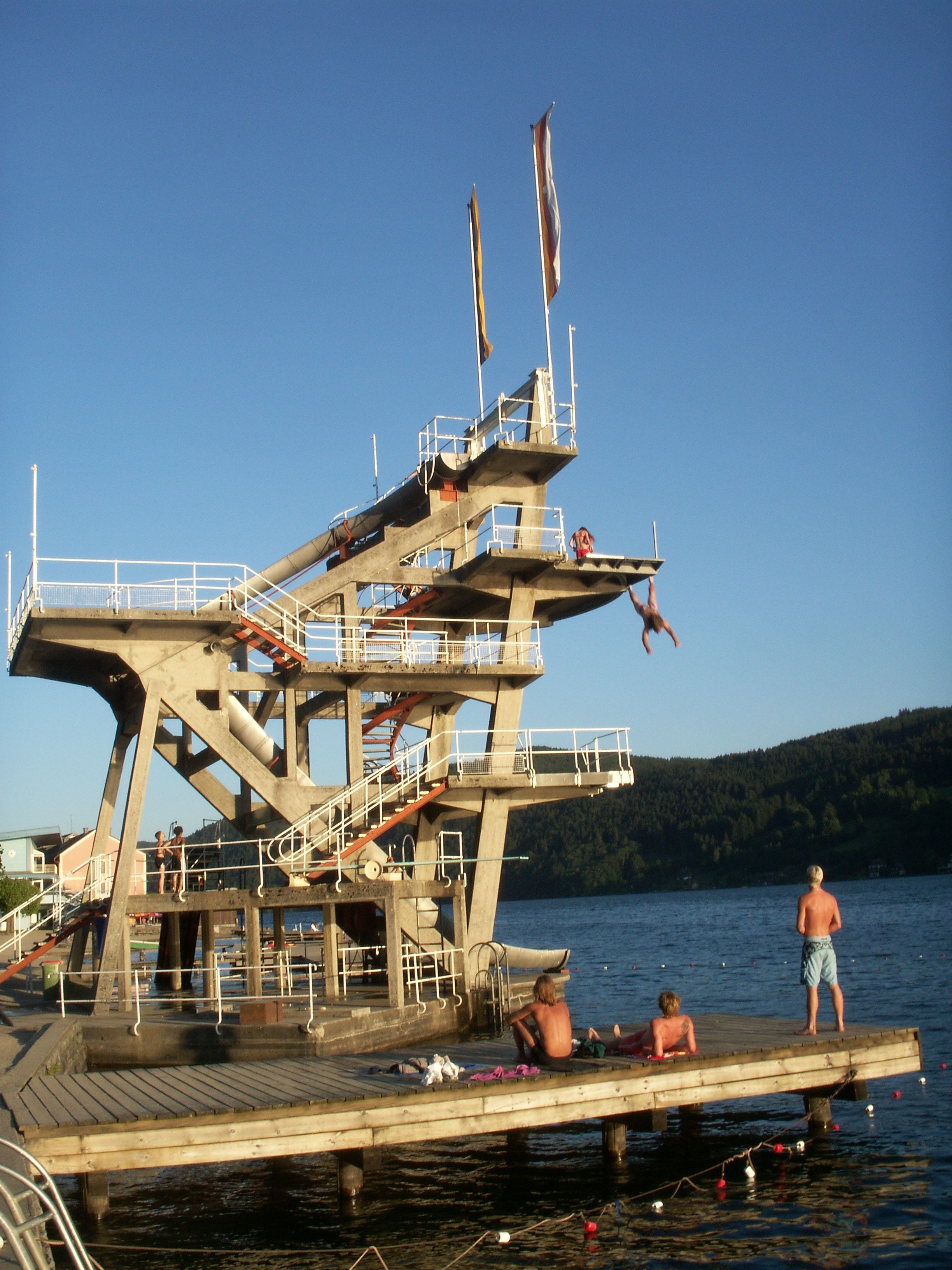 Highboard (built in 1931) n the public bathing area of the village Millstatt / Carinthia / Austria / EU. View south-east. Due to structural problems, the Millstätter Sprungturm has been closed since 2009. In the foreground three teenagers on a bath bridge. A jumping from the tower is in the air.